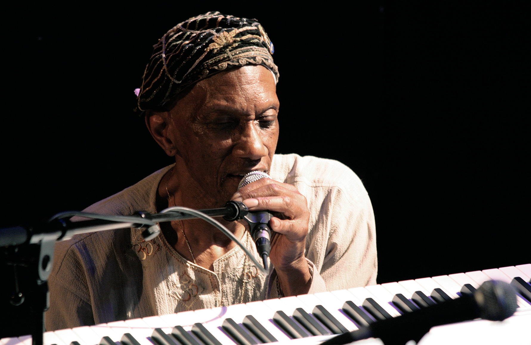 Bernie Worrell; concert with SociaLibrium at the jazz club Porgy & Bess in Vienna